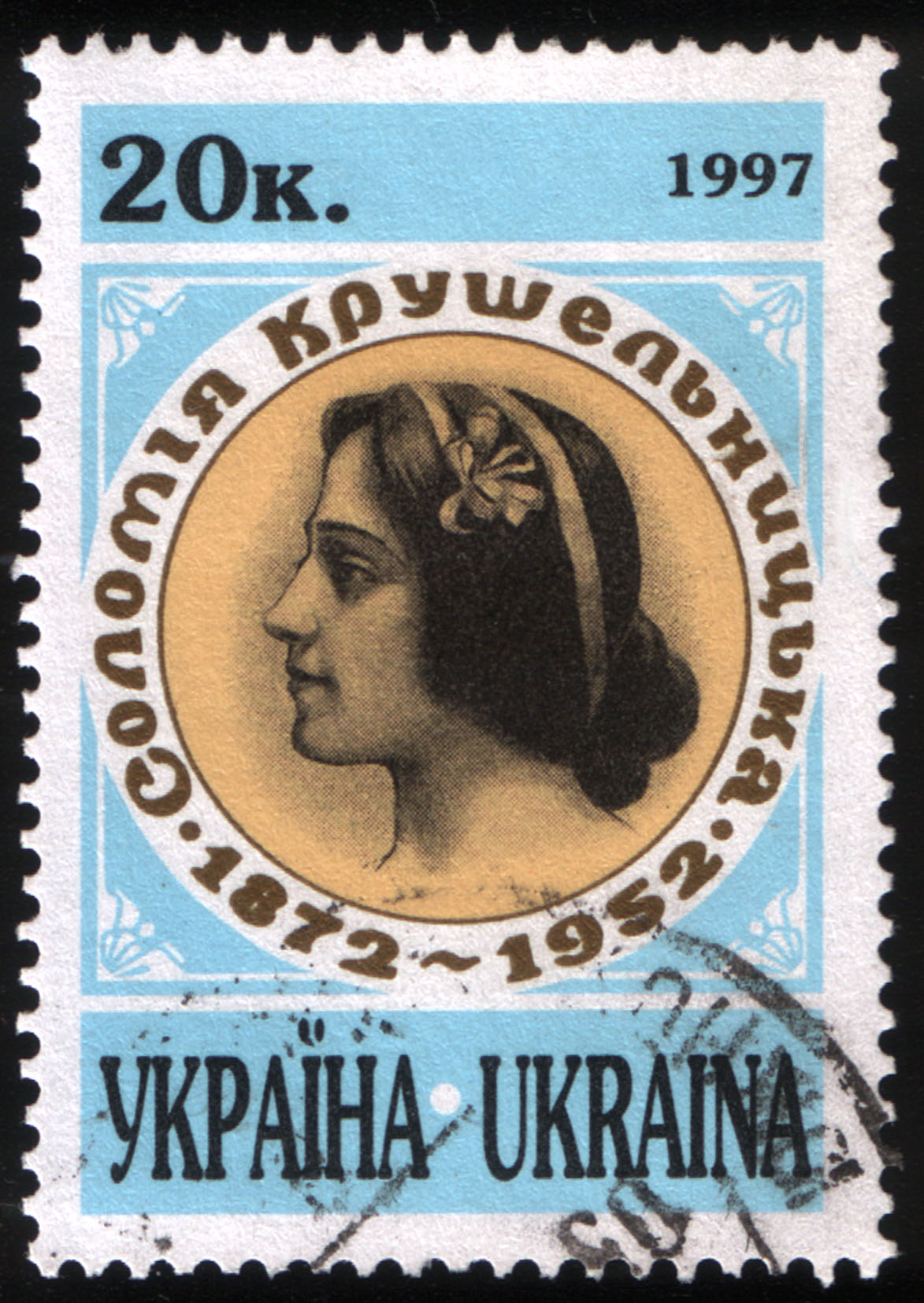 Stamp of Ukraina, S. Krushelnitska, 1997, 20 k.